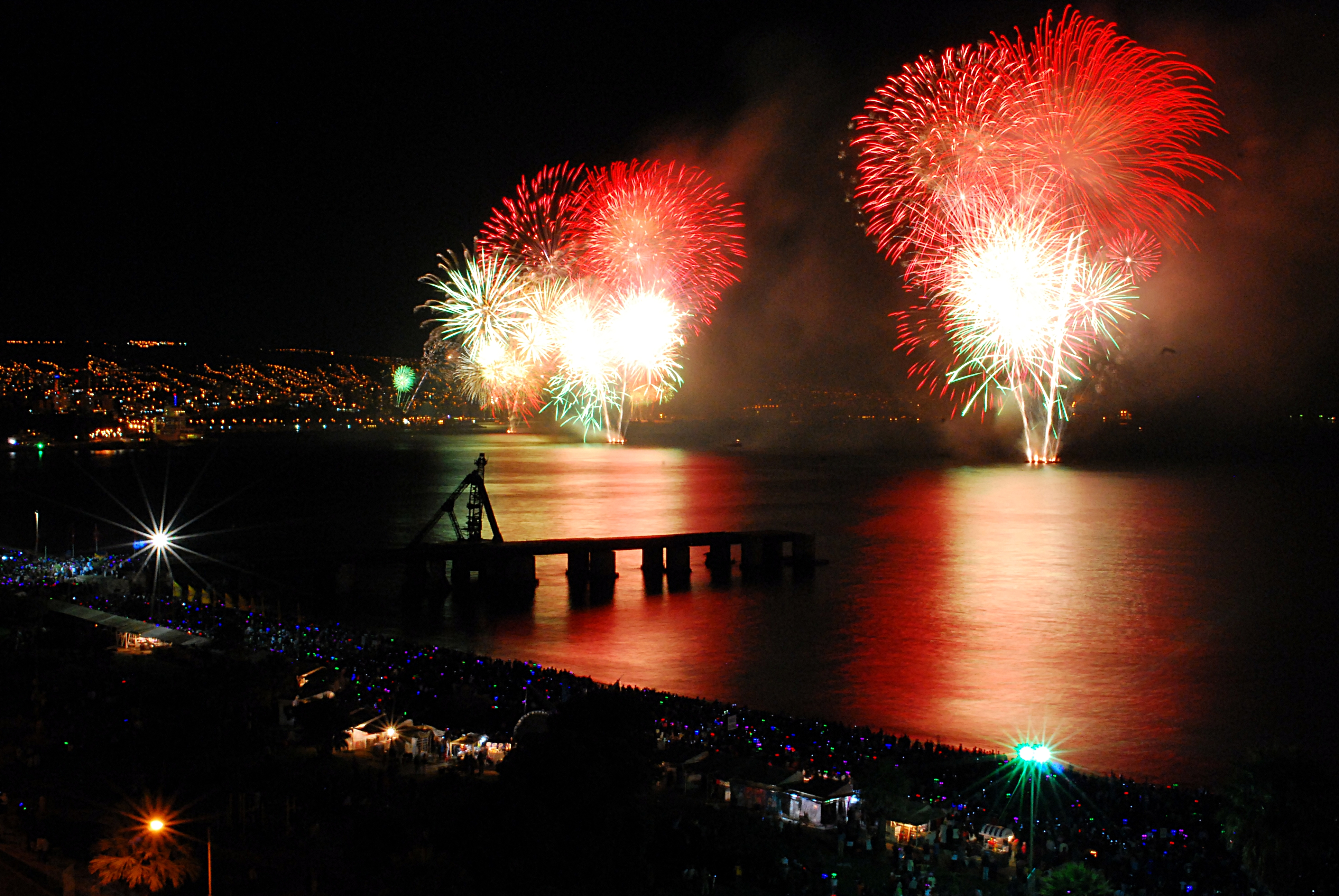 New Years in Valparaiso is a very special place and unique environment. Over a million visitors travel to the city and fill the beaches, hills and streets. The celebration continues until early hours of the morning. The fireworks display is one of the best in Latin America. Nikon D60, 28mm, 5sec @ f/29, ISO 800 Valparaíso, Chile.